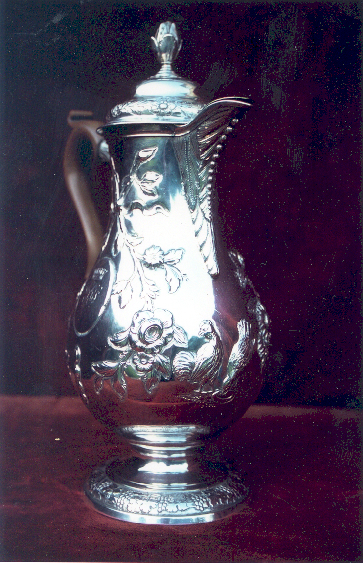 Irish (Dublin) hot water jug, c.1770 (scan of photo: both by R. de Salis, April 2006).Rodolph 10:12, 26 October 2007 (UTC) Detail File:Dublin Jug Bellonna closer.jpg|thumb|100px|left|Detail of one of the De Salis crests and count's coronet, for Peter, on one side of the jug. If used please credit: R. de Salis.